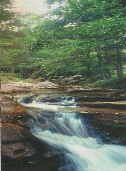 FiumeCrati.jpg I created this image myself and release it to the public domain (NDN)